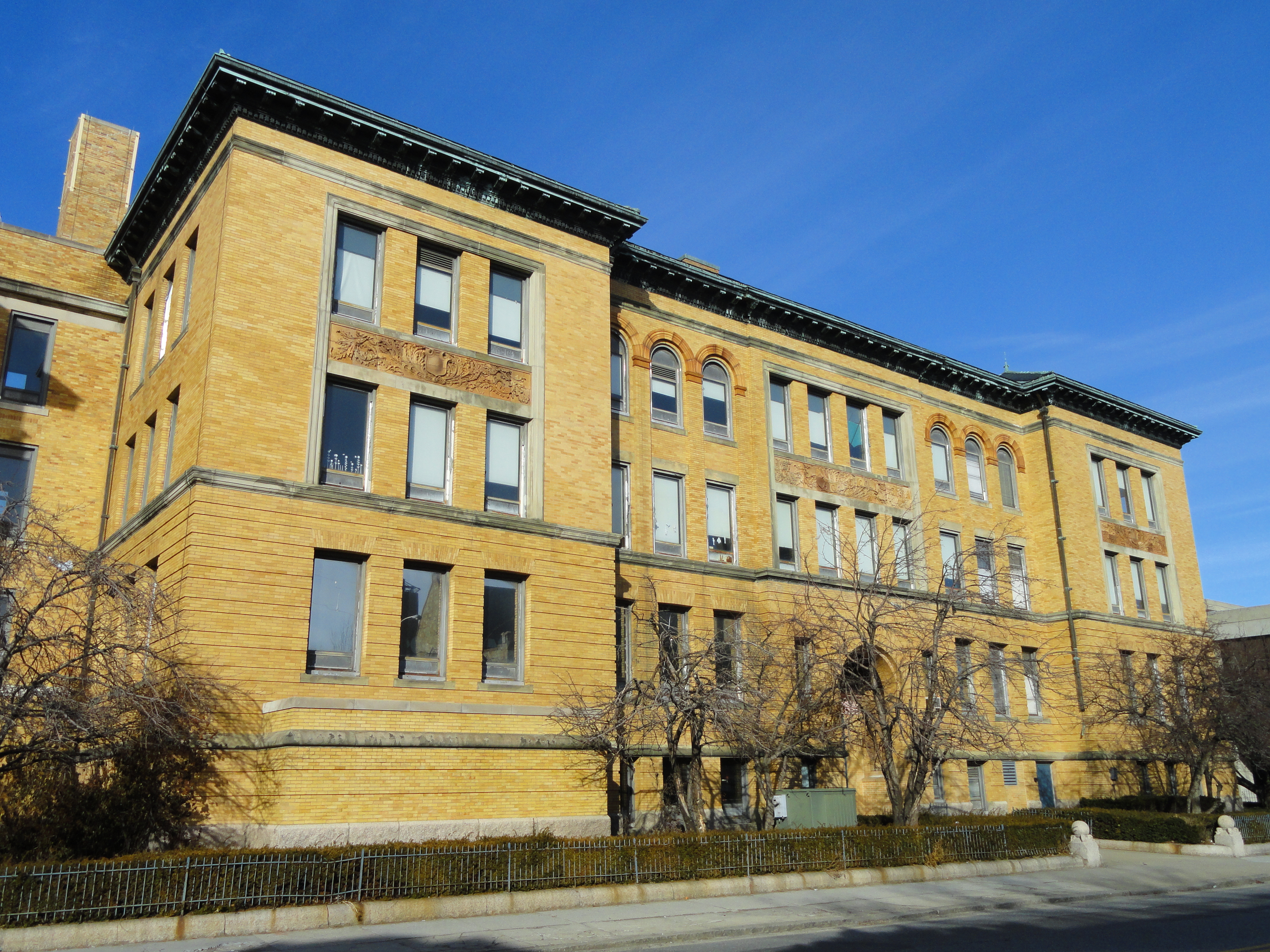 Henry K. Oliver School, Lawrence, Massachusetts, USA.